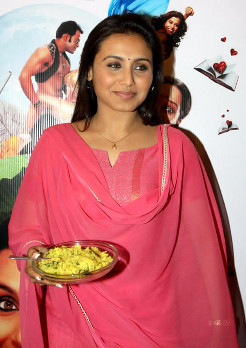 Rani Mukerji at promoting her film 'Aiyyaa' through 'chai poha' event